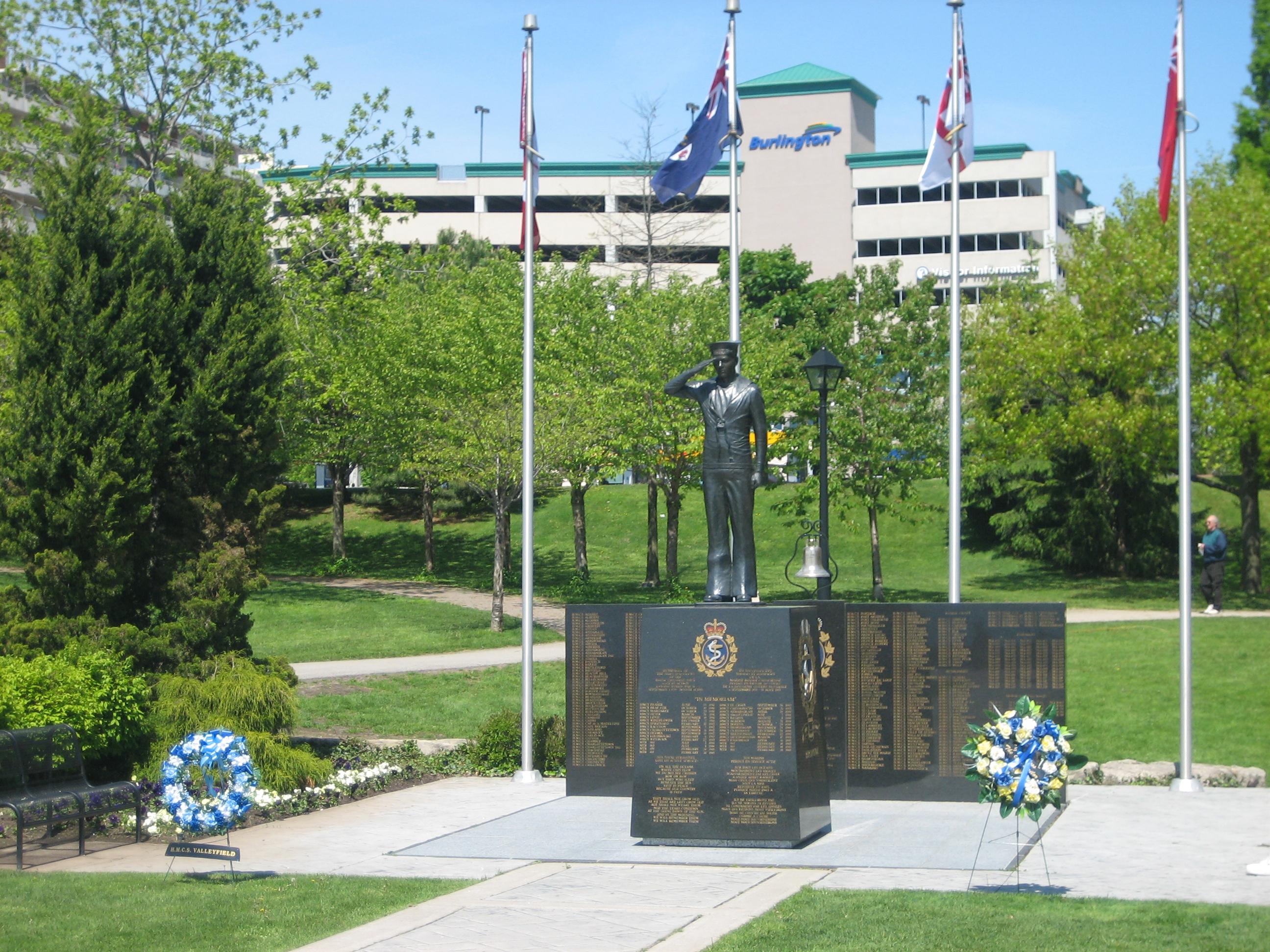 The photo is of the "Royal Canadian Naval Association Naval Memorial(1995)" by André Gauthier (sculptor). This 6’4” high cast bronze statue is of a WWII Canadian sailor in the position of attention which salutes his lost shipmates. The model for the statue was a local Sea Cadet wearing Mike Vencel's naval service uniform. The sculpture recognizes Canadian seamen and ships that served in WWII. It is located in Spencer Smith Park in Burlington, Ontario, Canada. On the black granite base, the names of RCN and Canadian Merchant Marine ships sunk during WWII are engraved. On the granite wall, the names of all RCN ships and Canadian Merchant Marine vessels which saw service in WWII are engraved. The photo was taken by Andrew Lynes, on May 21, 2007. It was taken for use in the Burlington, Ontario and Spencer Smith Park articles.